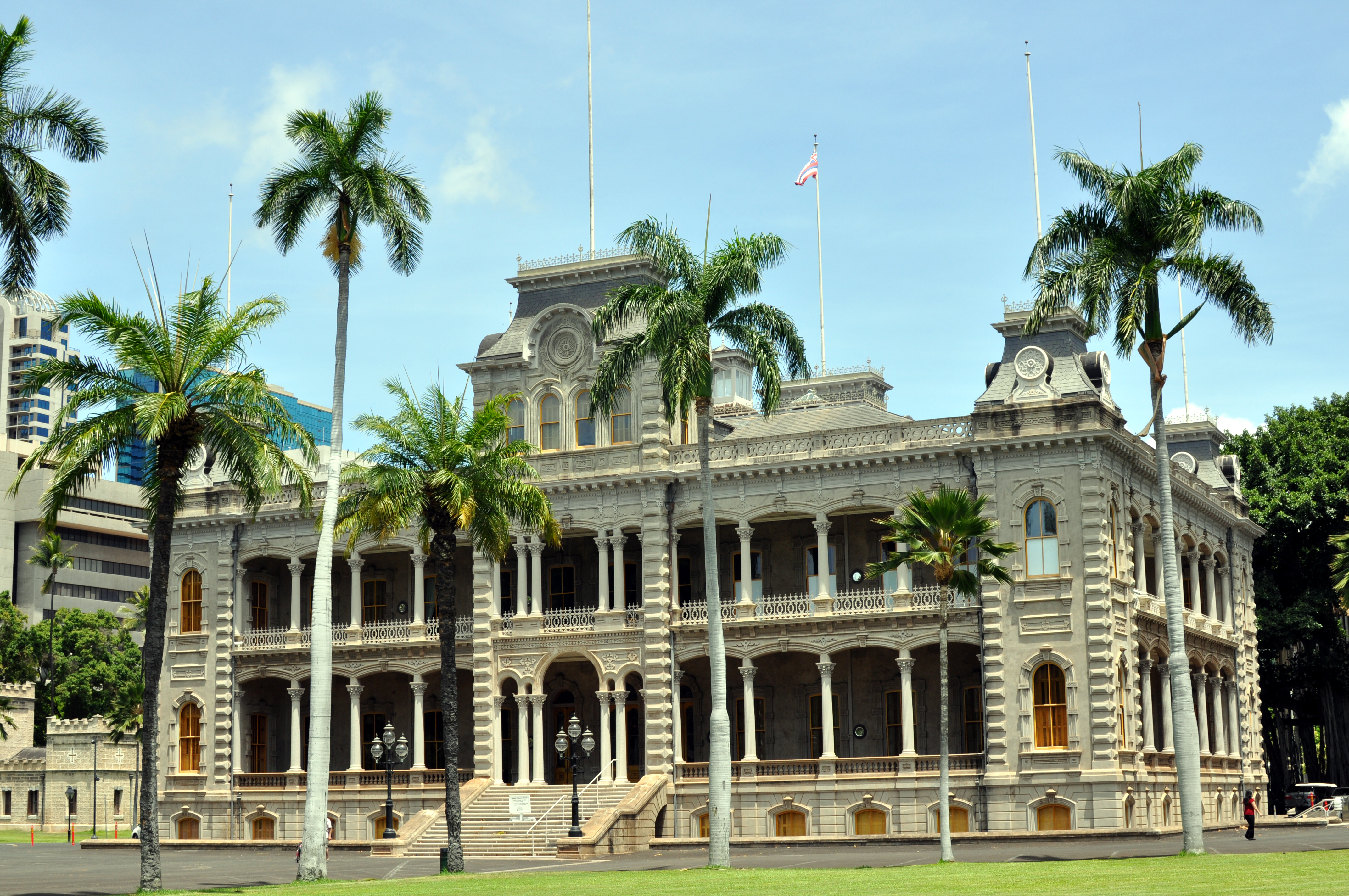 Iolani_Palace_Oahu_Hawaii_Photo_D_Ramey_Logan please publish photographer credit if used outside of WIkipedia "Photo:D Ramey Logan 2011"